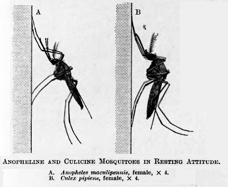 Culex versus Anopheles